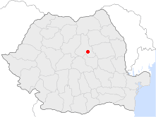 Location of Miercurea Ciuc in Romania.